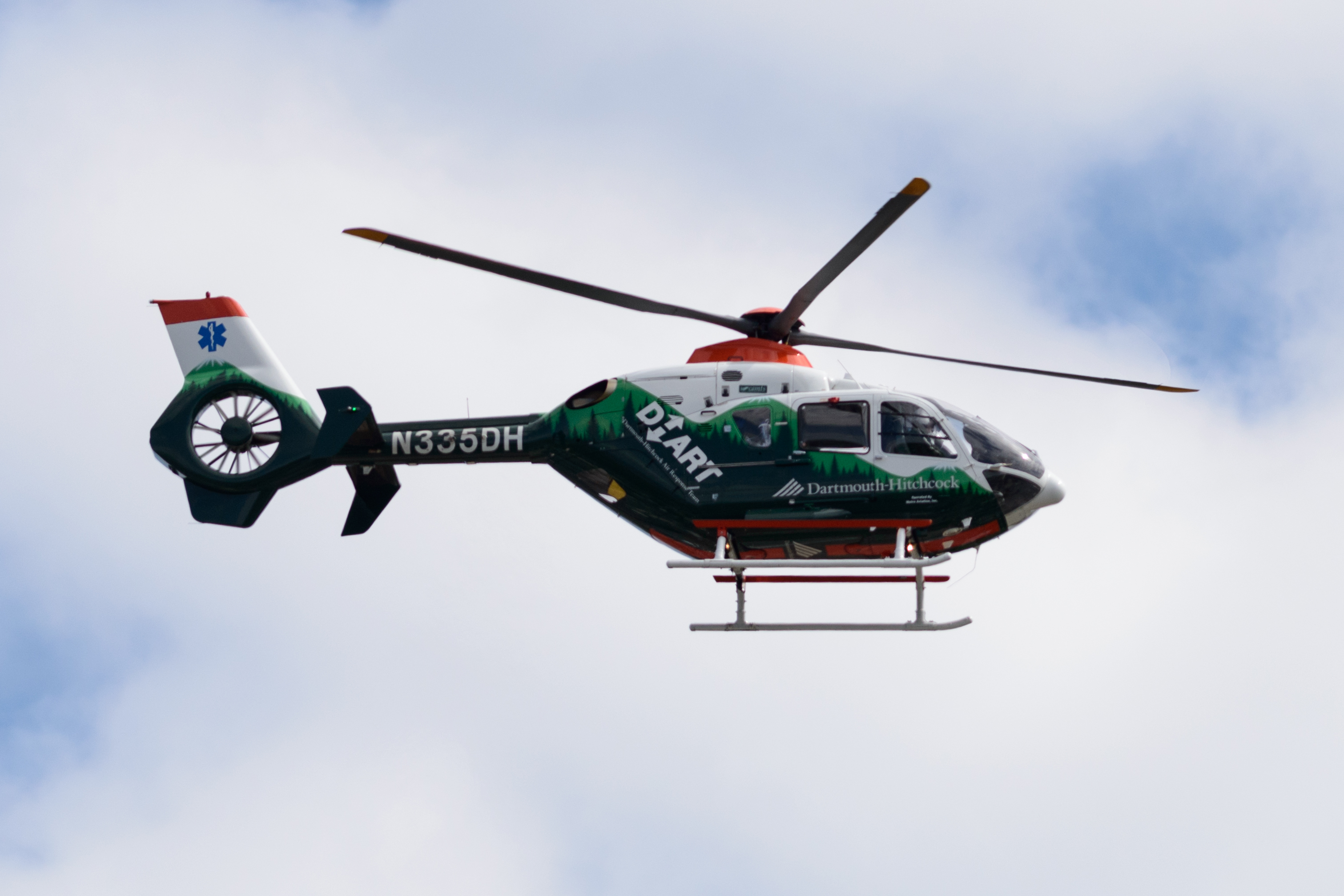 Eurocopter EC 135 P2+ used by Dartmouth-Hitchcock Advanced Response Team at Dartmouth–Hitchcock Medical Center.